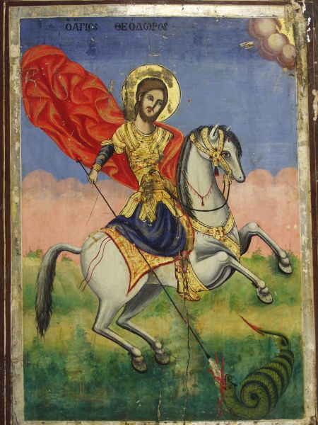 Saint Theodor Debar School Icon